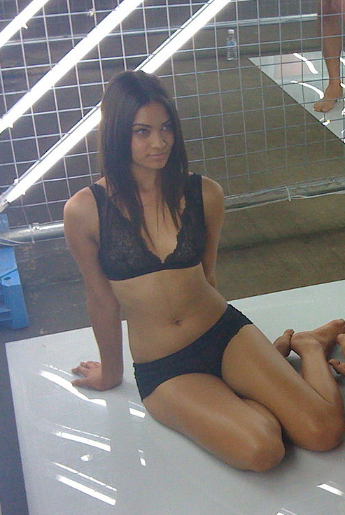 Shanina Shaik (born 11 February 1991)[1][2] is a model from Melbourne, Australia.